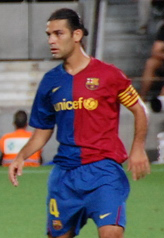 A photo of Rafael Marquez taken during Joan Gamper Trophy 2008, cropped by me